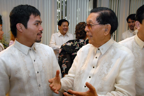 Senate President Juan Ponce Enrile gives neophyte congressman Manny Paquiao of Saranggani some pointers on bill making during the first State of the Nation Address of the 15th Congress at the Batasan.